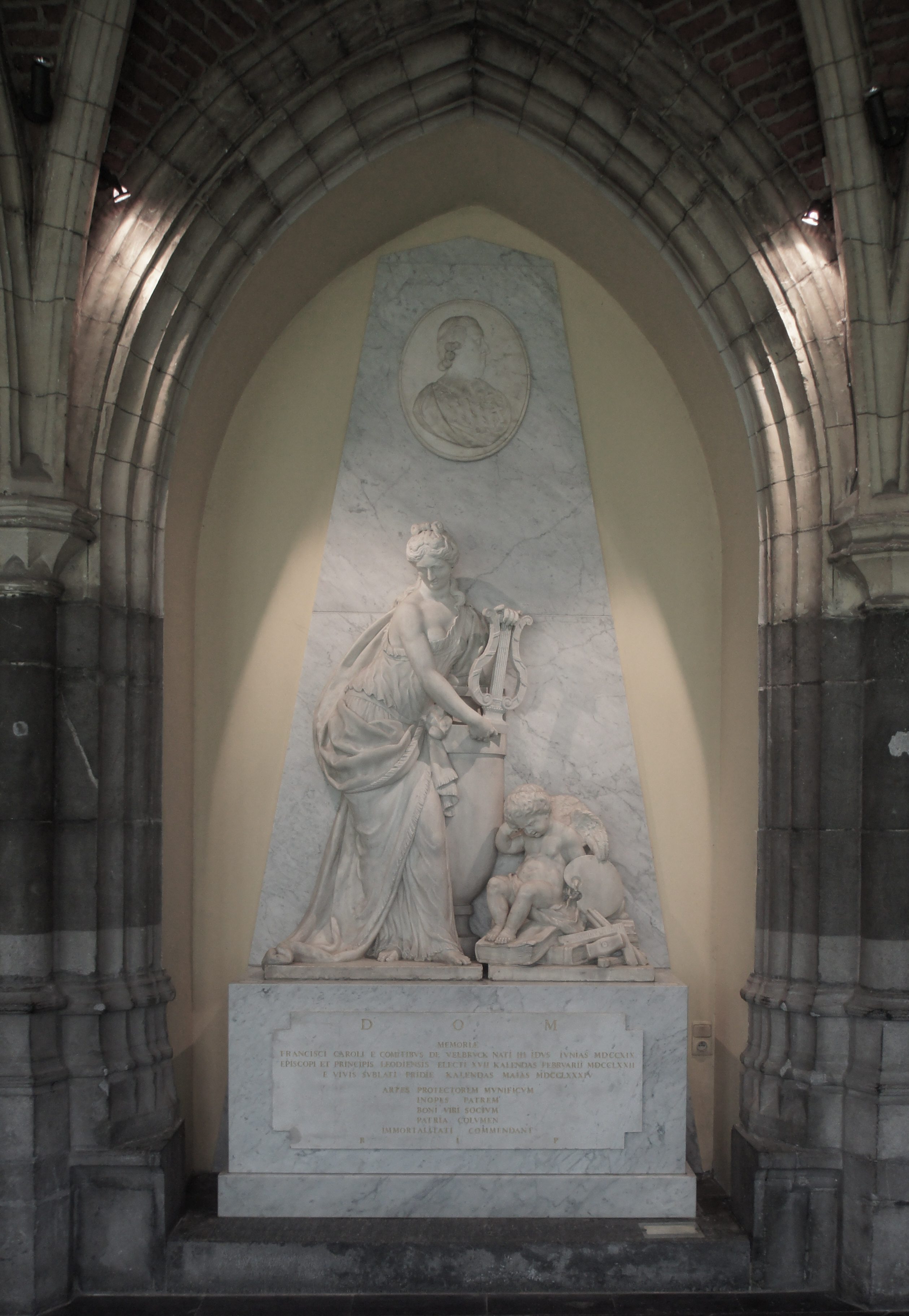 Liège (Germany): Sarcophagus of the prince-bishof François-Charles de Velbrück in the cloister of the cathedral, sculpture from François Dewandre